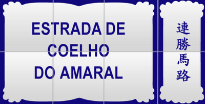 Macao Street sign of Estrada de Coelho Do Amaral.